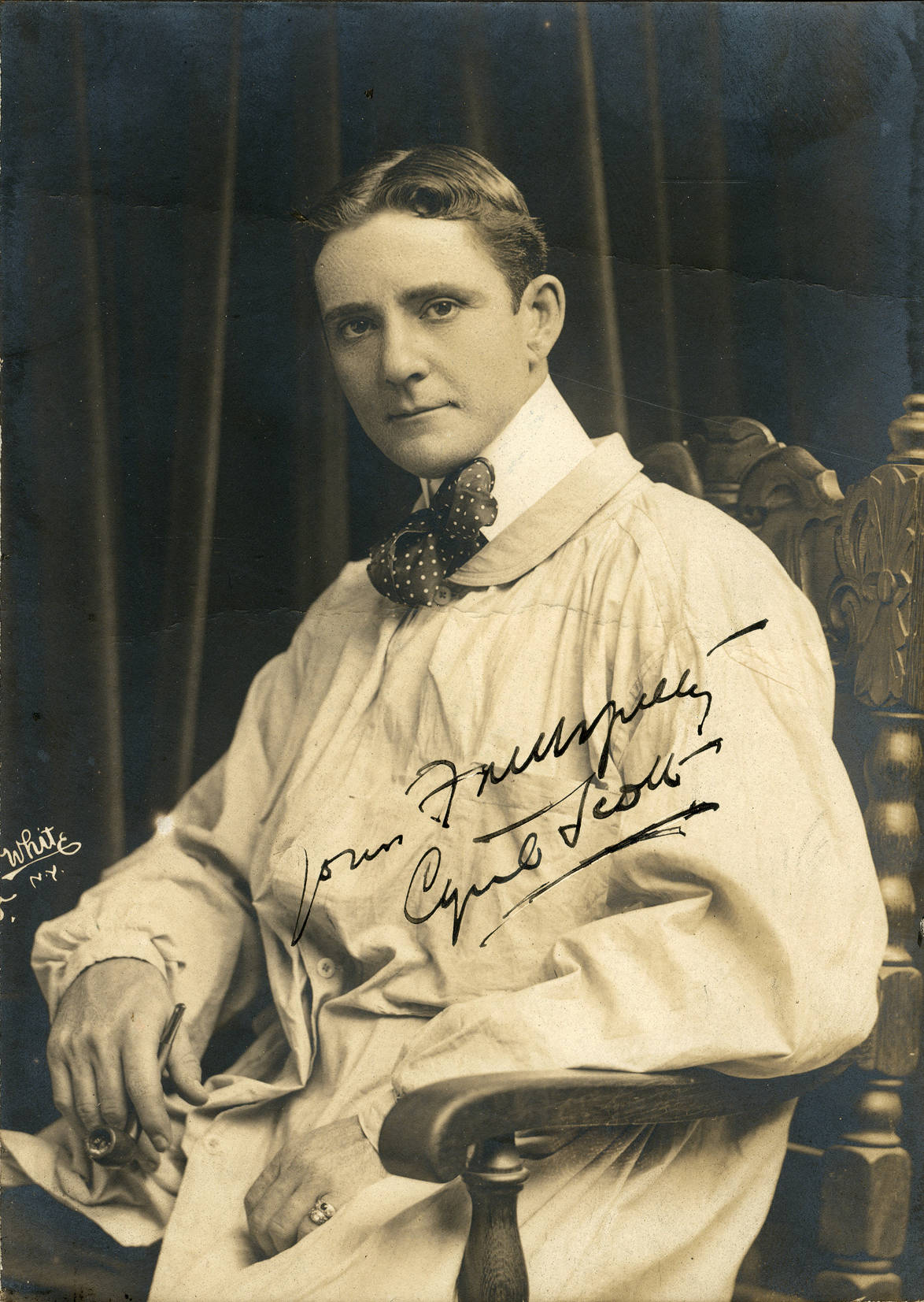 Cyril Scott, stage actor Subjects: actors